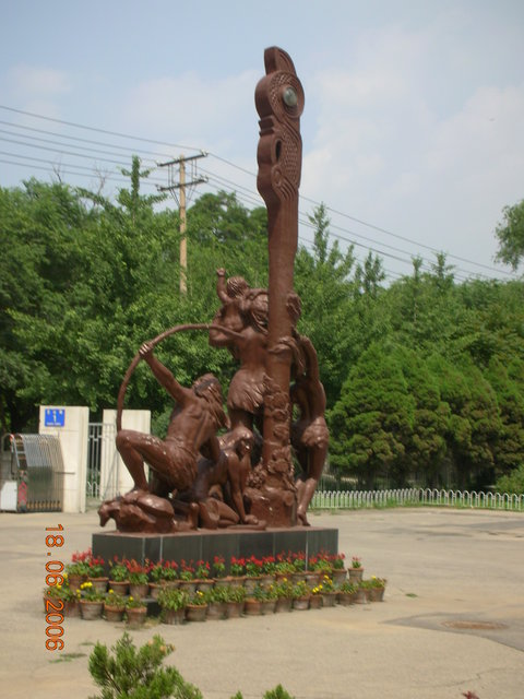 Xinle neolithic statue, Shenyang, China 新樂先民與太陽鳥圖騰像